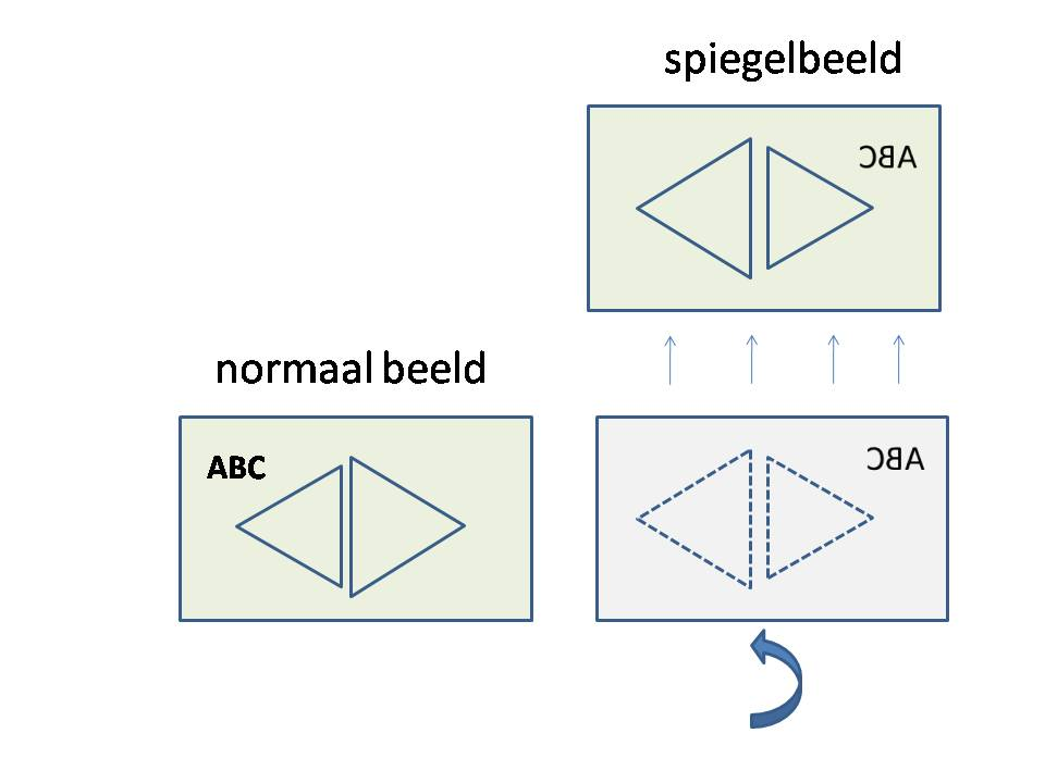 mirror image explanation